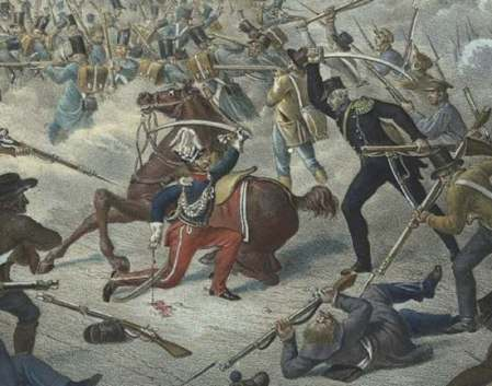 Swiss painter Martin Disteli (1802-1844) depicting the battle at Hulftenschanz, 1833